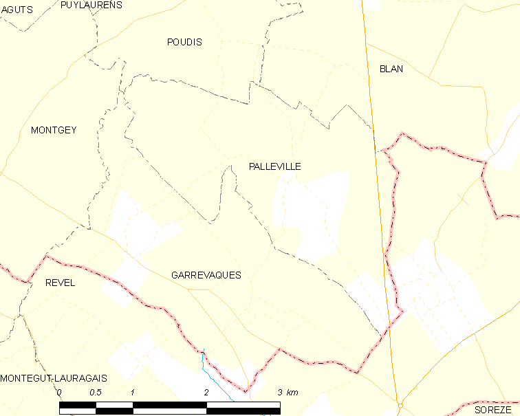 Map of French municipality Palleville